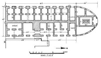 dsfrsdf